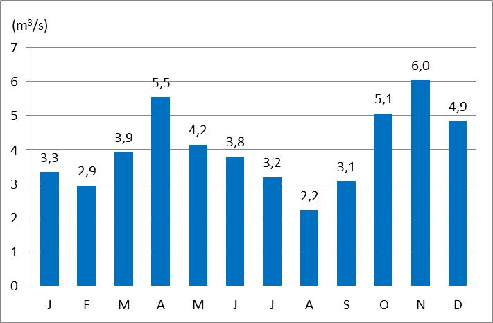 Average monthly discharges of Dreta River at the gauging station Kraše in 1971–2000